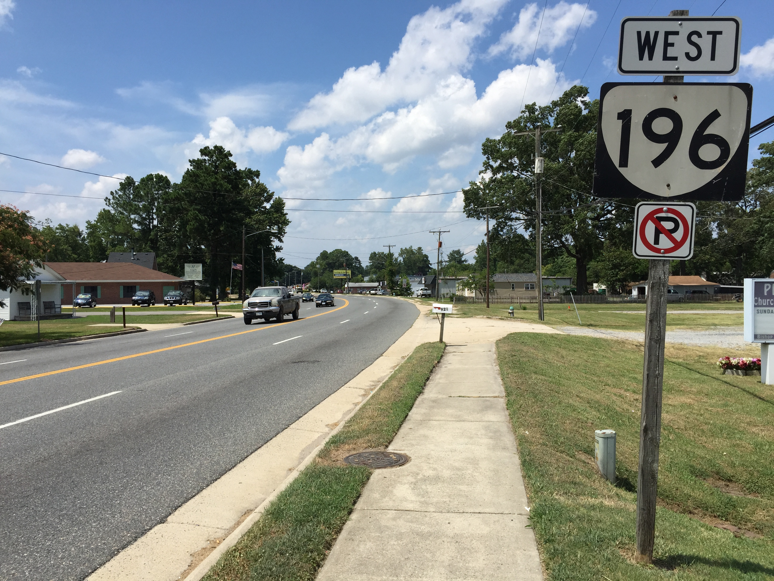 View west along Virginia State Route 196 (Canal Drive) at Broadmoor Avenue in Chesapeake, Virginia